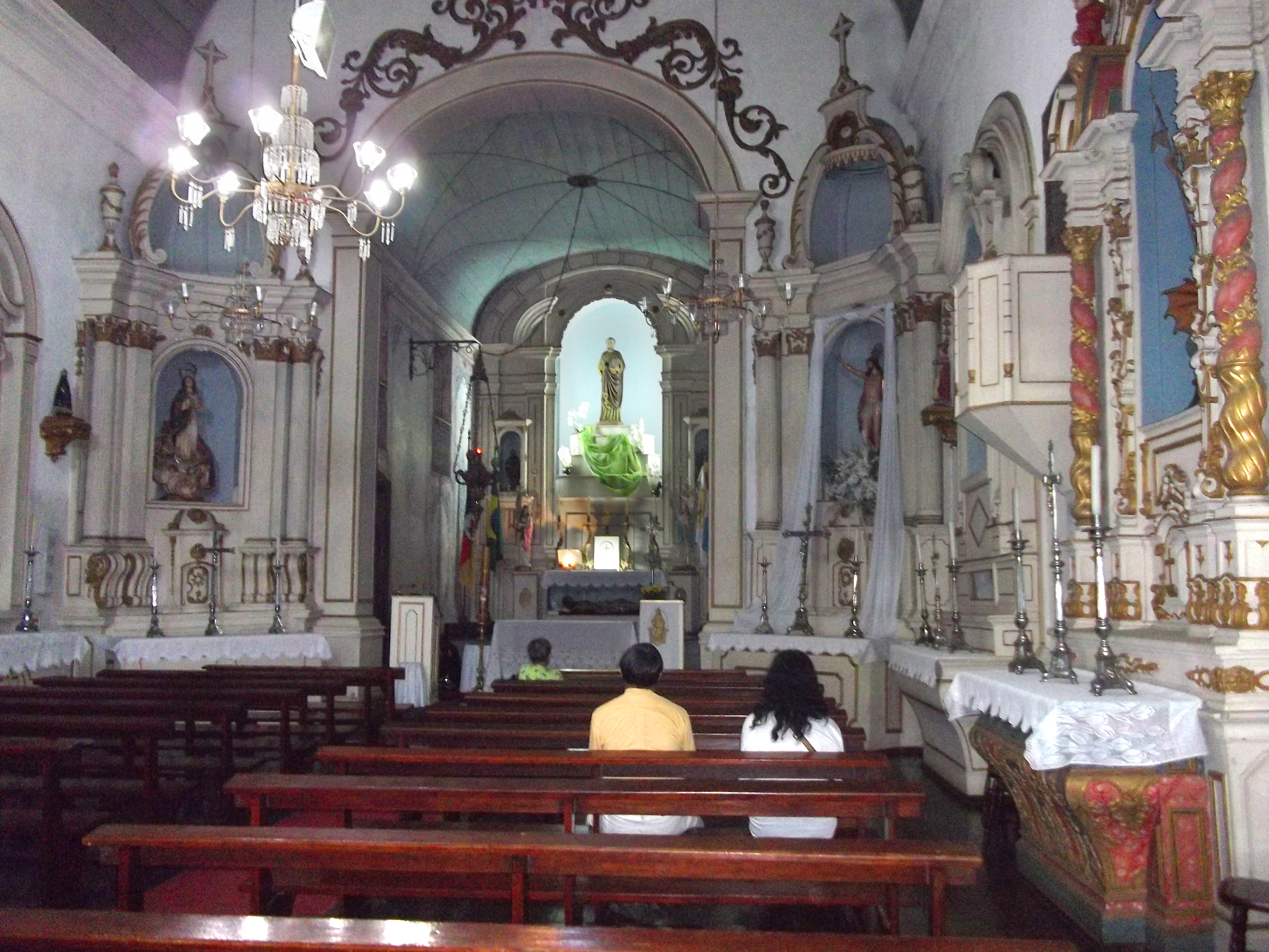 Saint Peter Cathedral, Rio Grande, Brazil